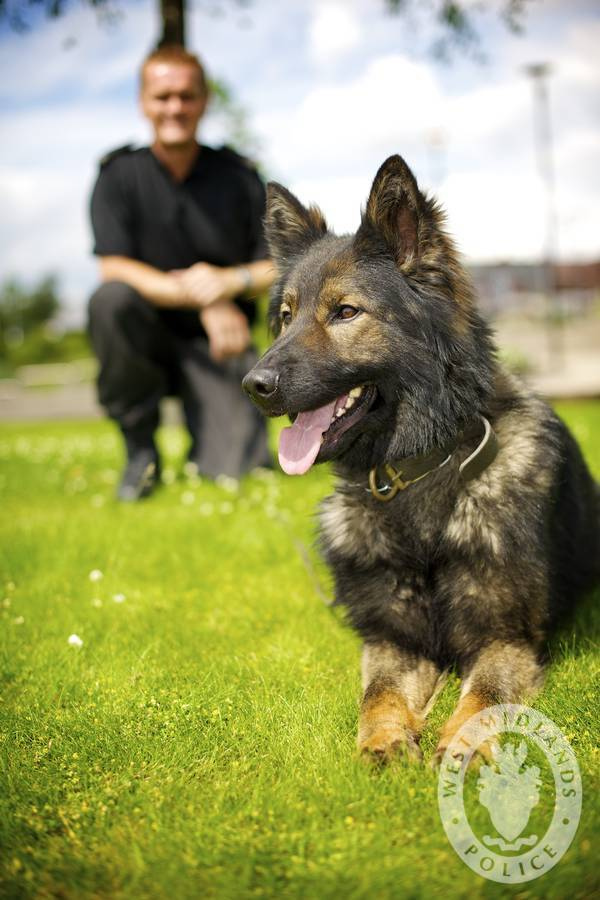 This photo shows West Midlands Police dog Ivan with his handler PC Wood. Police dog Ivan bravely disarmed a man who was armed with a hacksaw recently.